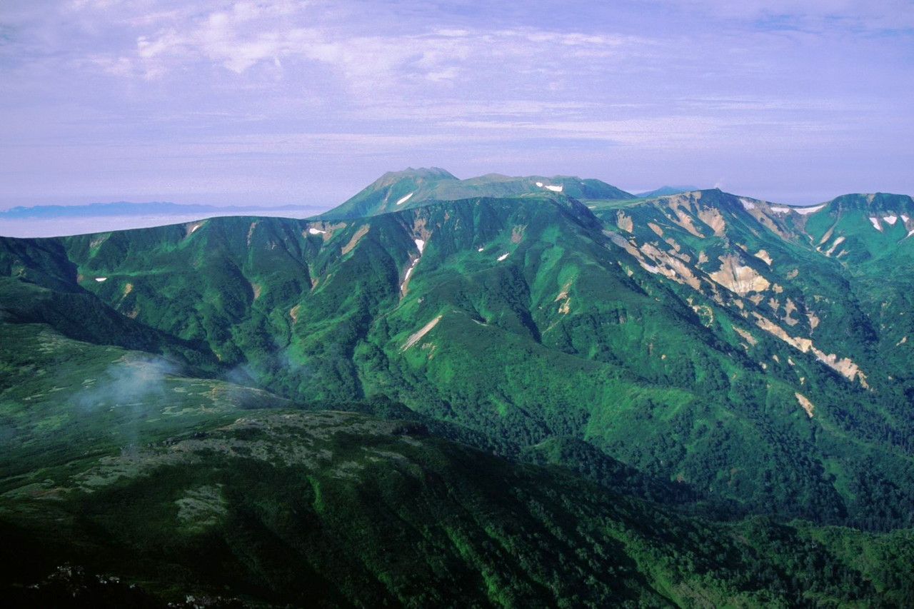 Mount Tomuraushi seen from Mount Chūbetsu